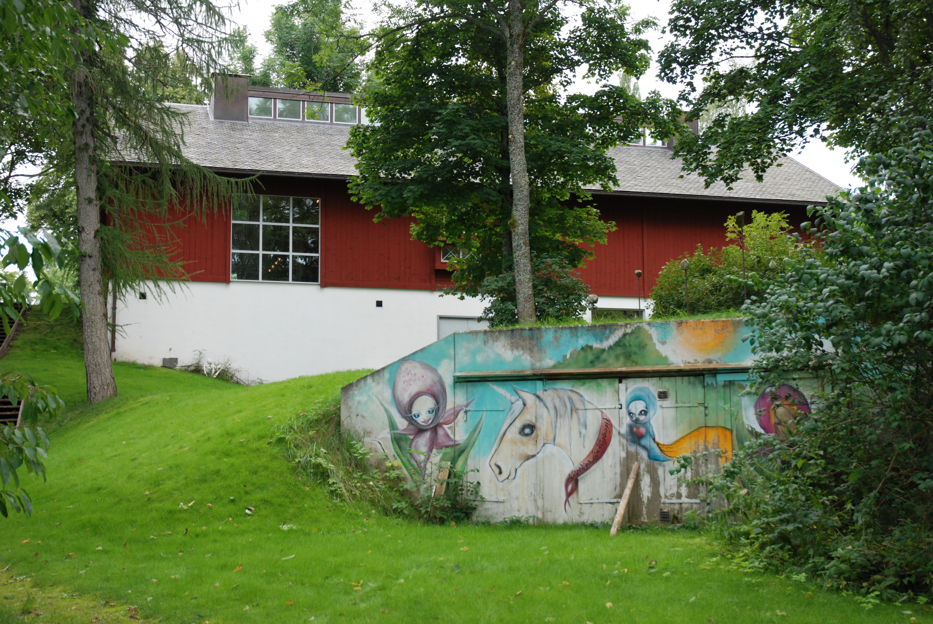 Dalslands konstmuseum baksidan